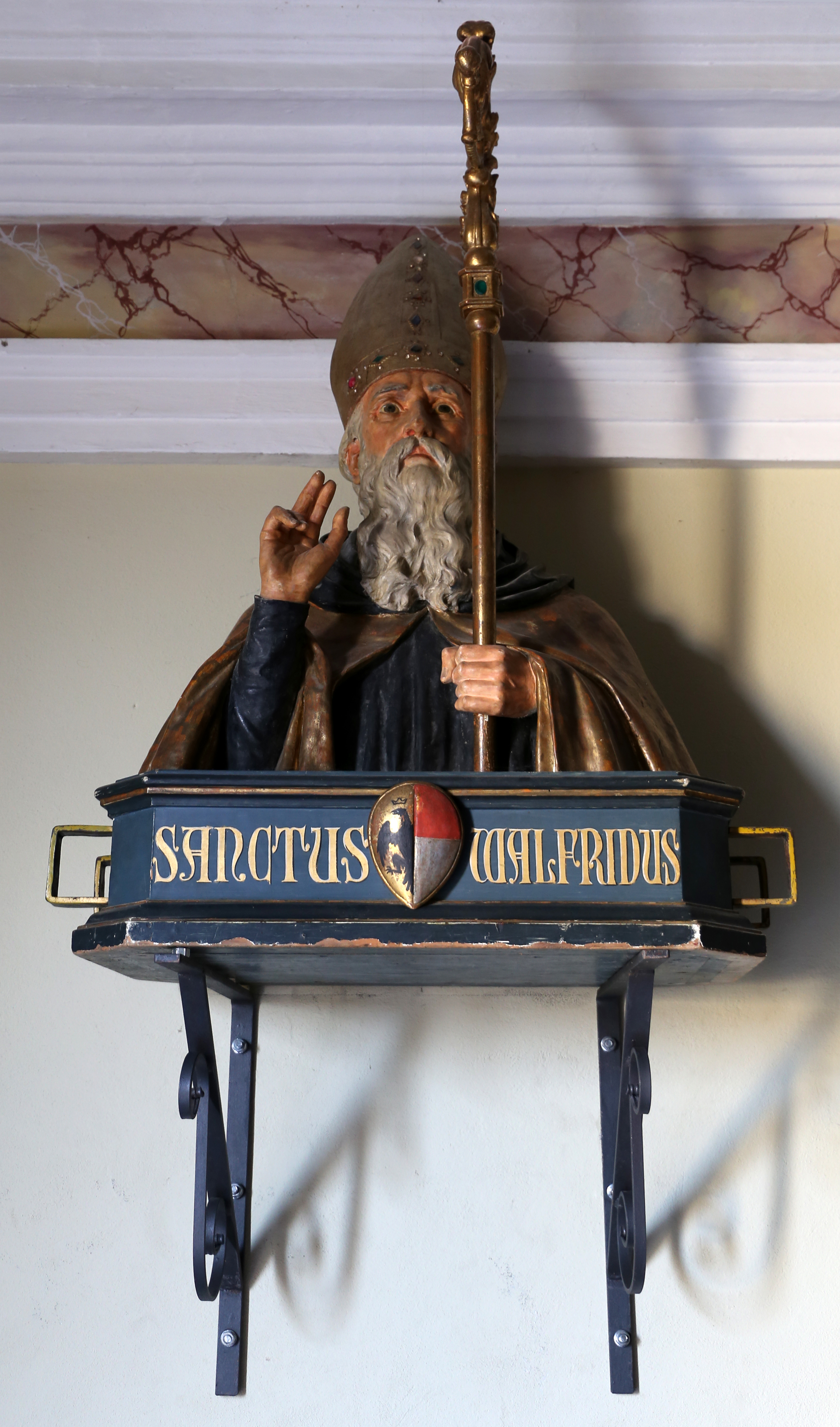 Monteverdi Marittimo